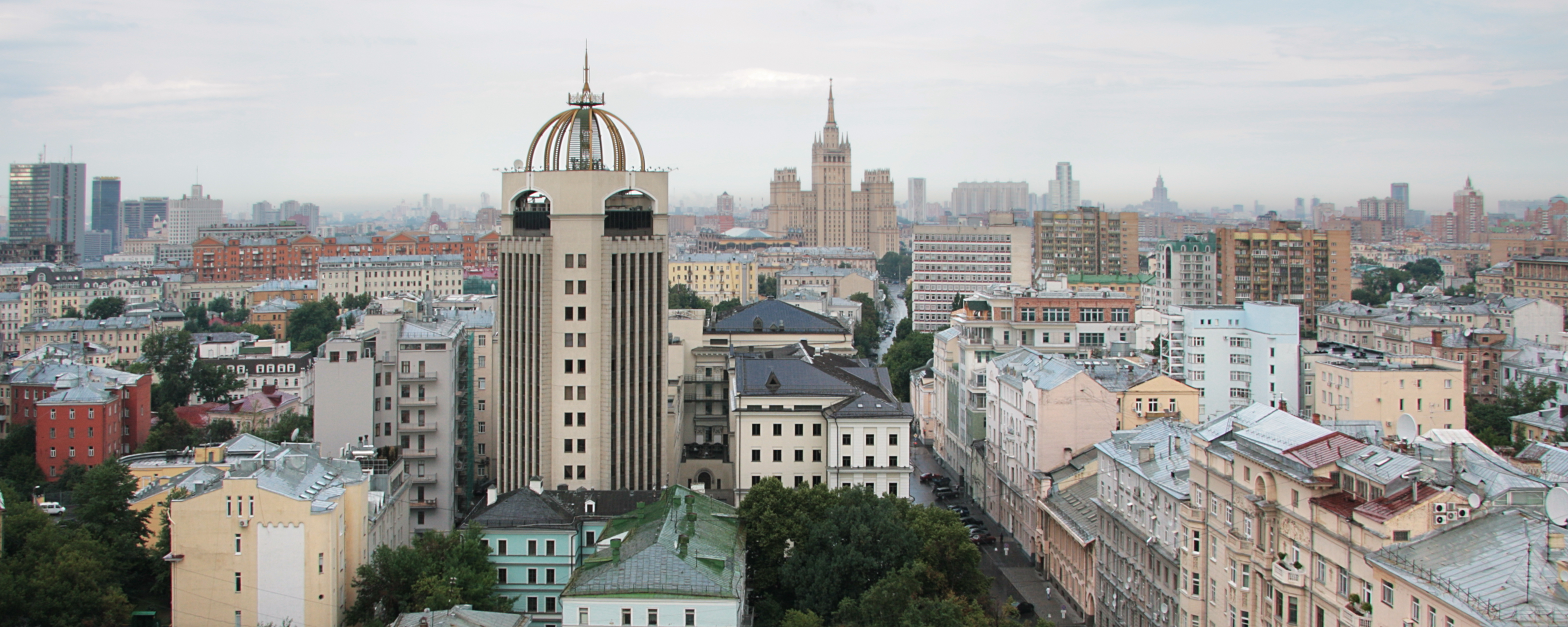 Povarskaya Street, Moscow, Russia